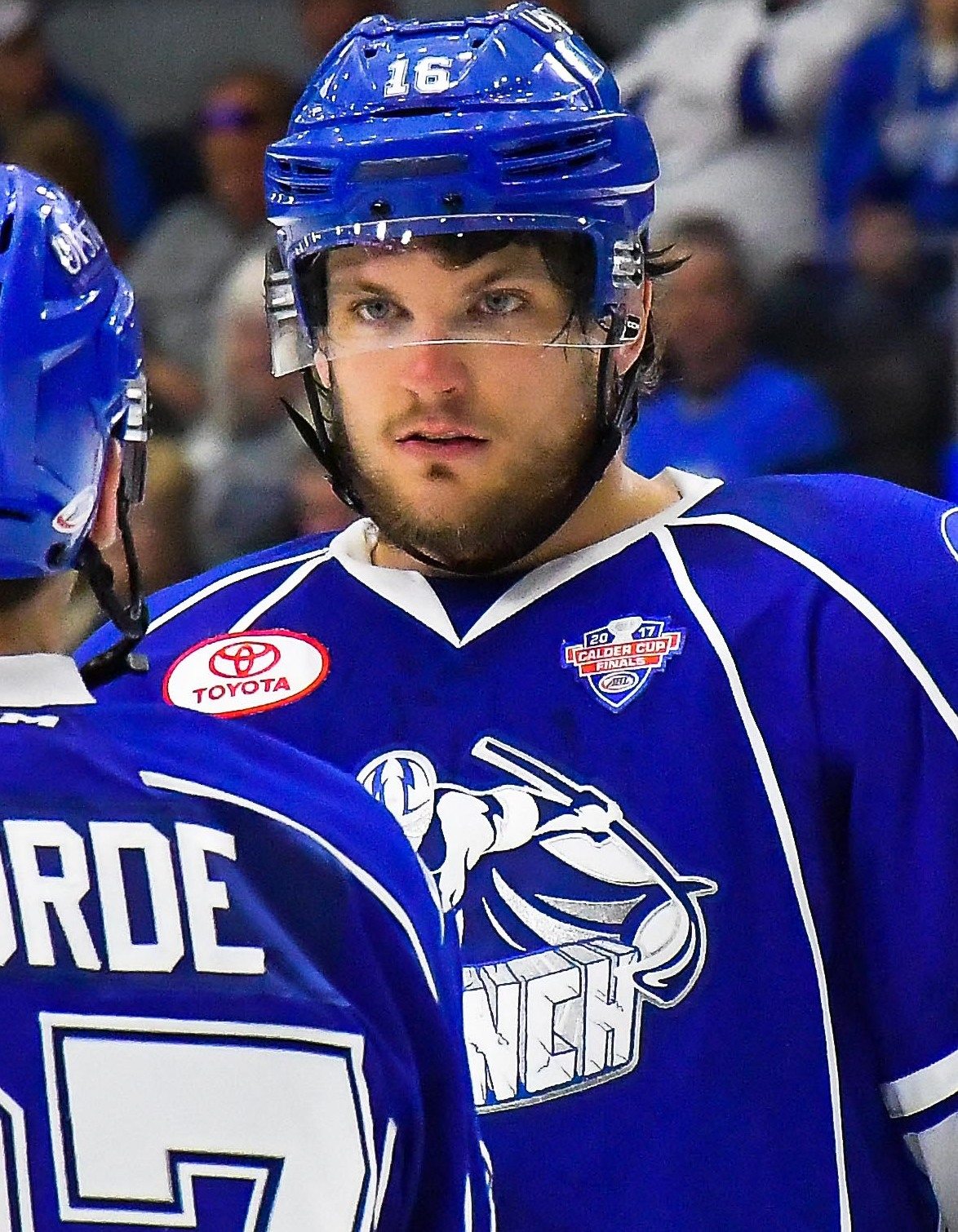 Syracuse Crunch Yanni Gourde (37) and Tye McGinn (16) confer before a face-off against the Grand Rapids Griffins in American Hockey League (AHL) Calder Cup Playoff action at the War Memorial Arena in Syracuse, New York on Wednesday, June 7, 2017. Syracuse won 5-3.